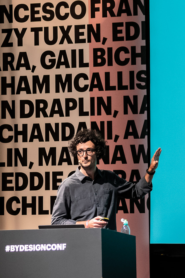 Francesco Franchi during 2019 By Design Conference in Bratislava